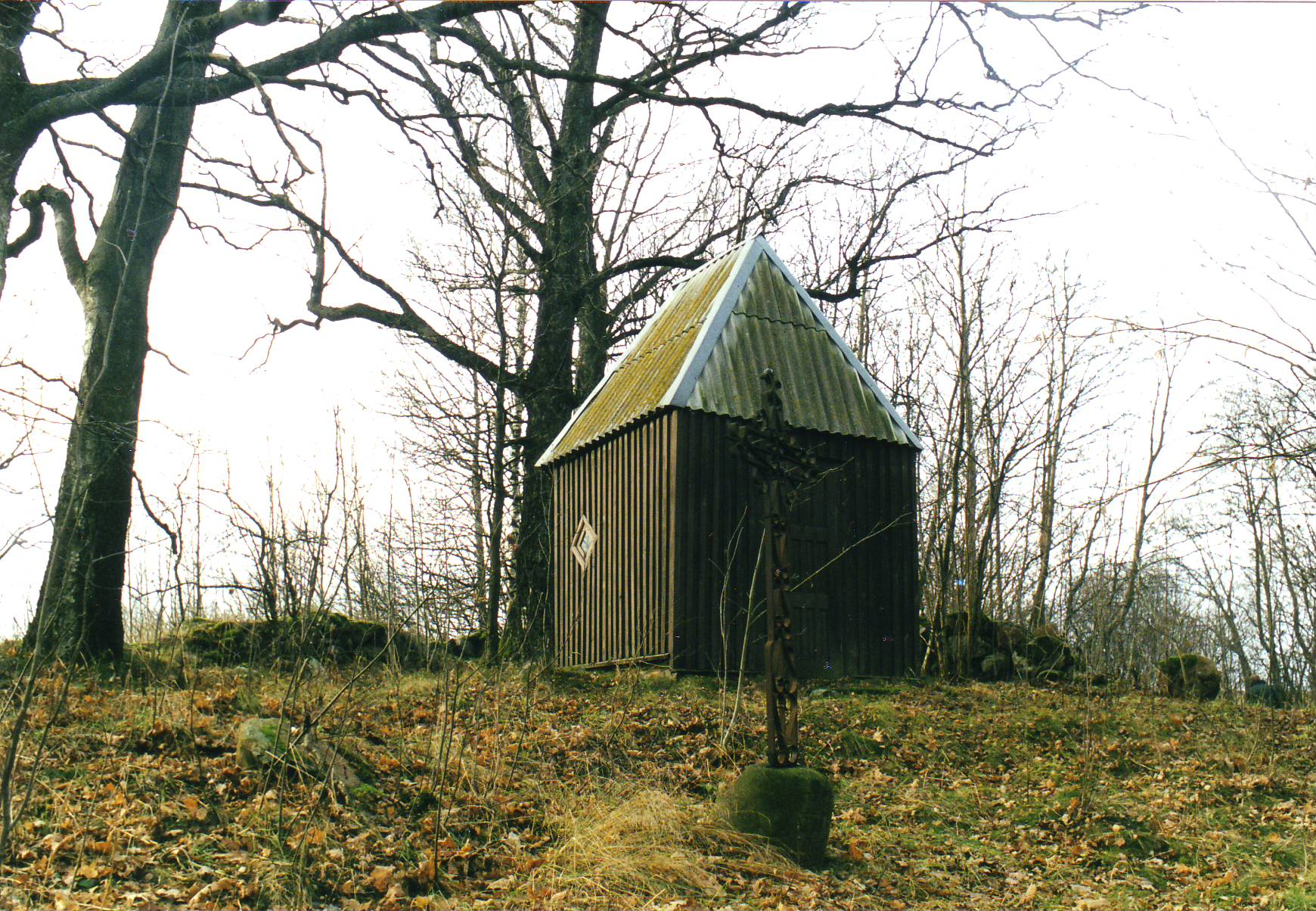 Klausgalvai cemetery, Kretinga district, Lithuania